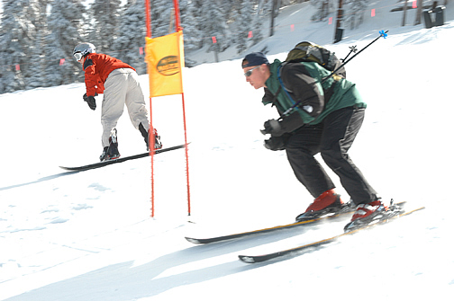 Nearly 200 skiers and snowboarders participated in numerous slalom racing events; Commander's Cup, Broken Tip and Individual competitions. This year, Peterson AFB won the Commander's Cup for the second consecutive year and F.E. Warren won the Broken Tip category.